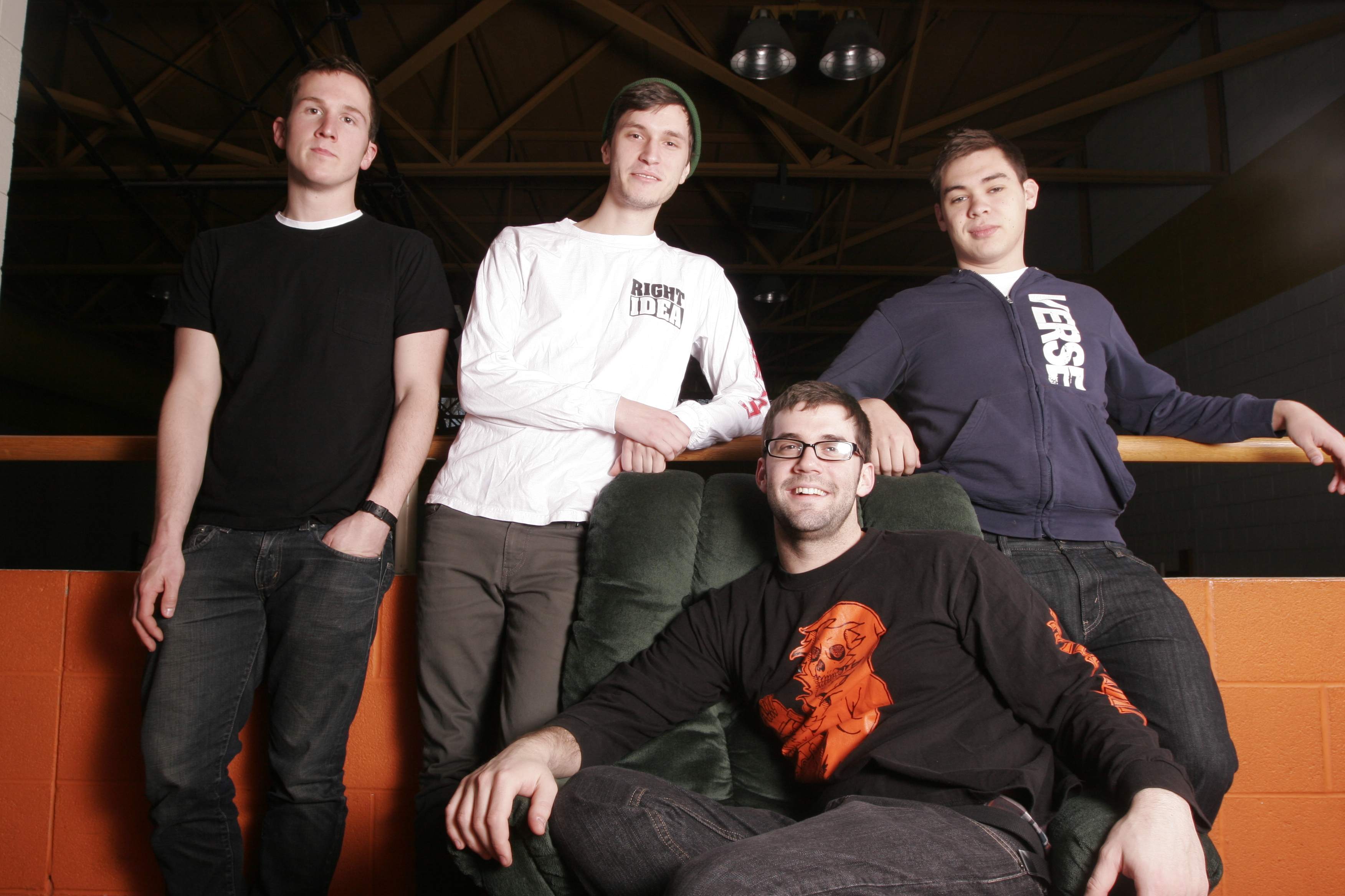 The band Light Years, photographed in 2011. Seated: Pat Kennedy. Standing, Andrew Foerst, Tommy Englert and Kent Sliney.